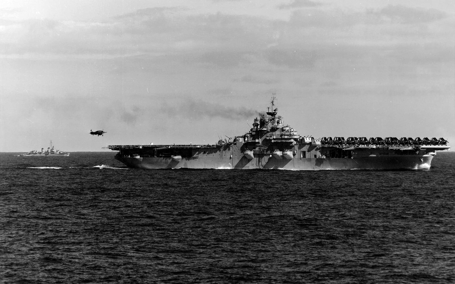 A U.S. Navy Douglas AD-4W Skyraider from Composite Squadron VC-11 Det.G approaches the aircraft carrier USS Bon Homme Richard (CV-31) off Korea, 3 July 1951. VC-11 Det.G was assigned to Carrier Air Group 102 (CVG-102) aboard the Bonnie Dick for a deployment to Korea from 10 May to 17 December 1951. The Fletcher-class destroyer USS Yarnall (DD-541) is visible in the background.